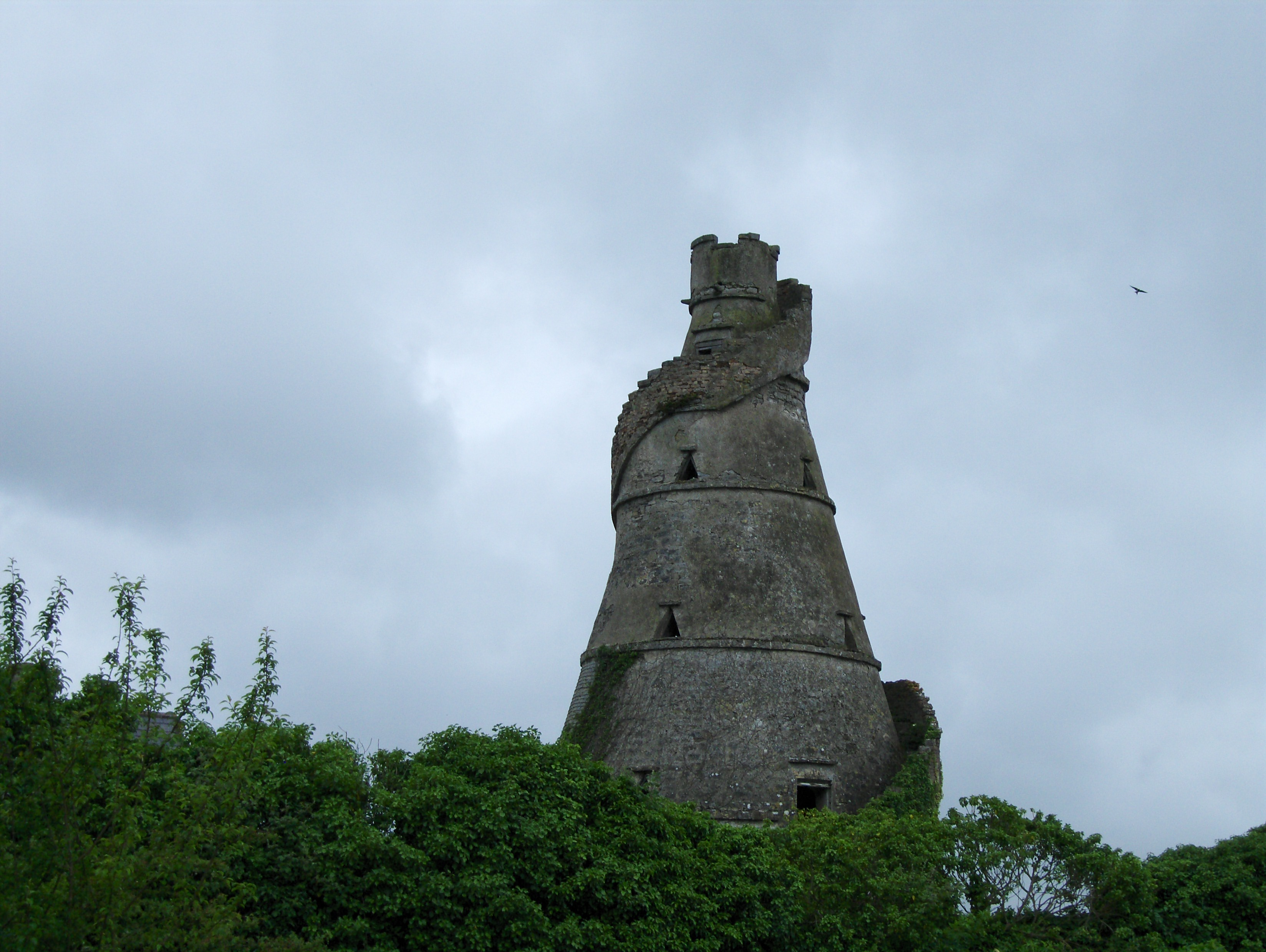 Wonderful Barn, Leixlip, Co. Kildare